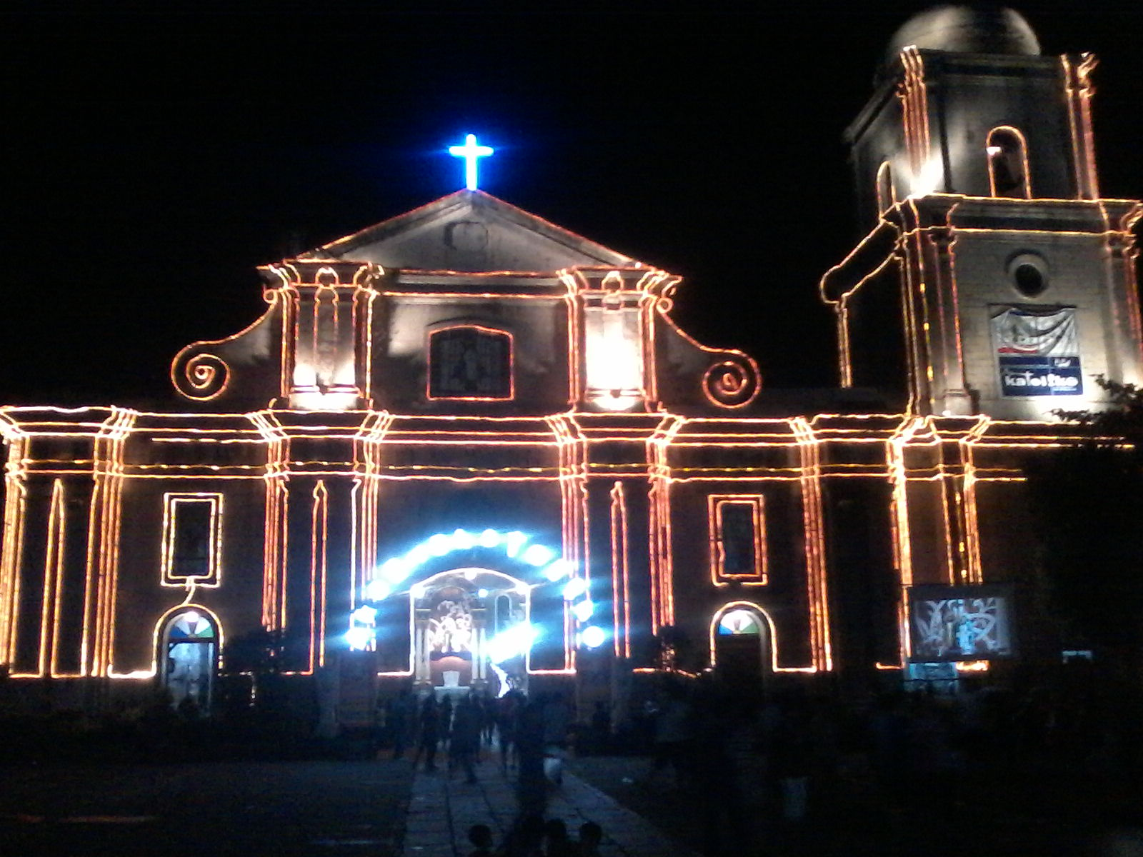 It shows the Imus Cathedral church in Imus City, Cavite. It has been like this during nights when it is only a matter of week before christmas.